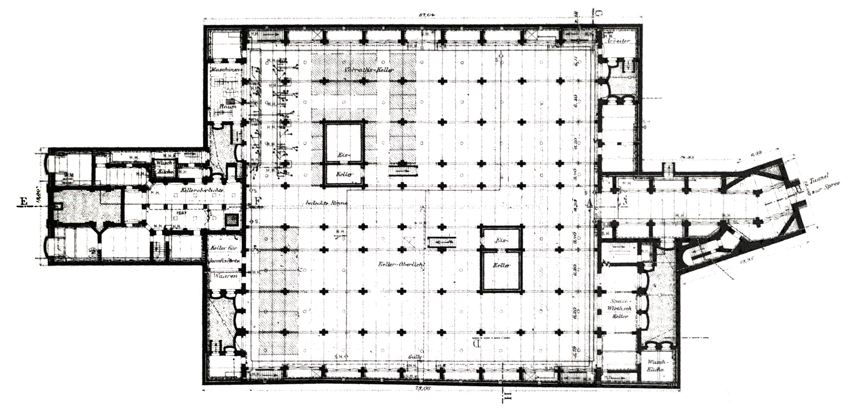 Berlin - market hall IV at Dorotheenstraße 29, plan basement